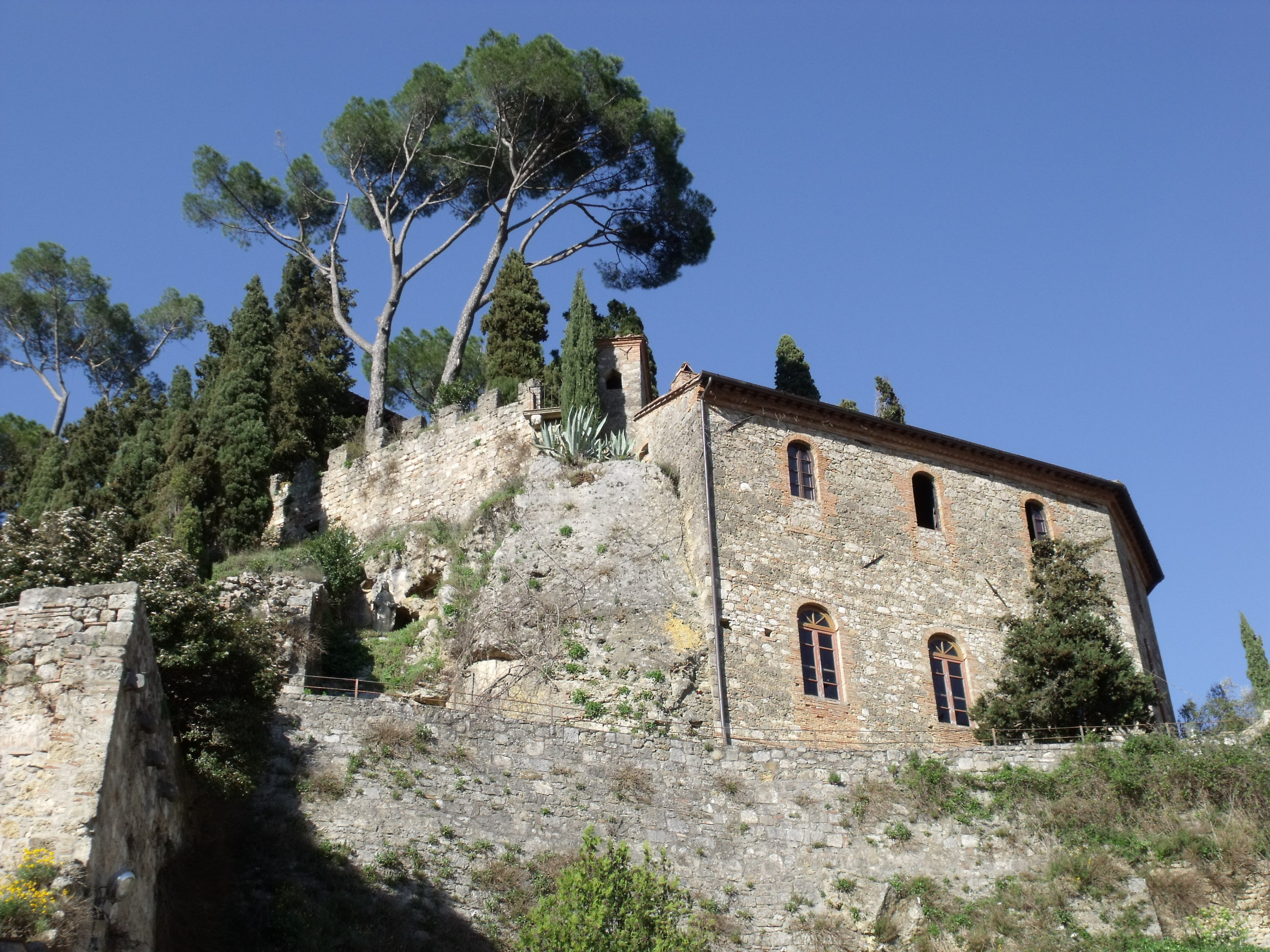 Rocca di Cetona Detail, Cetona, Province of Siena, Tuscany, Italy